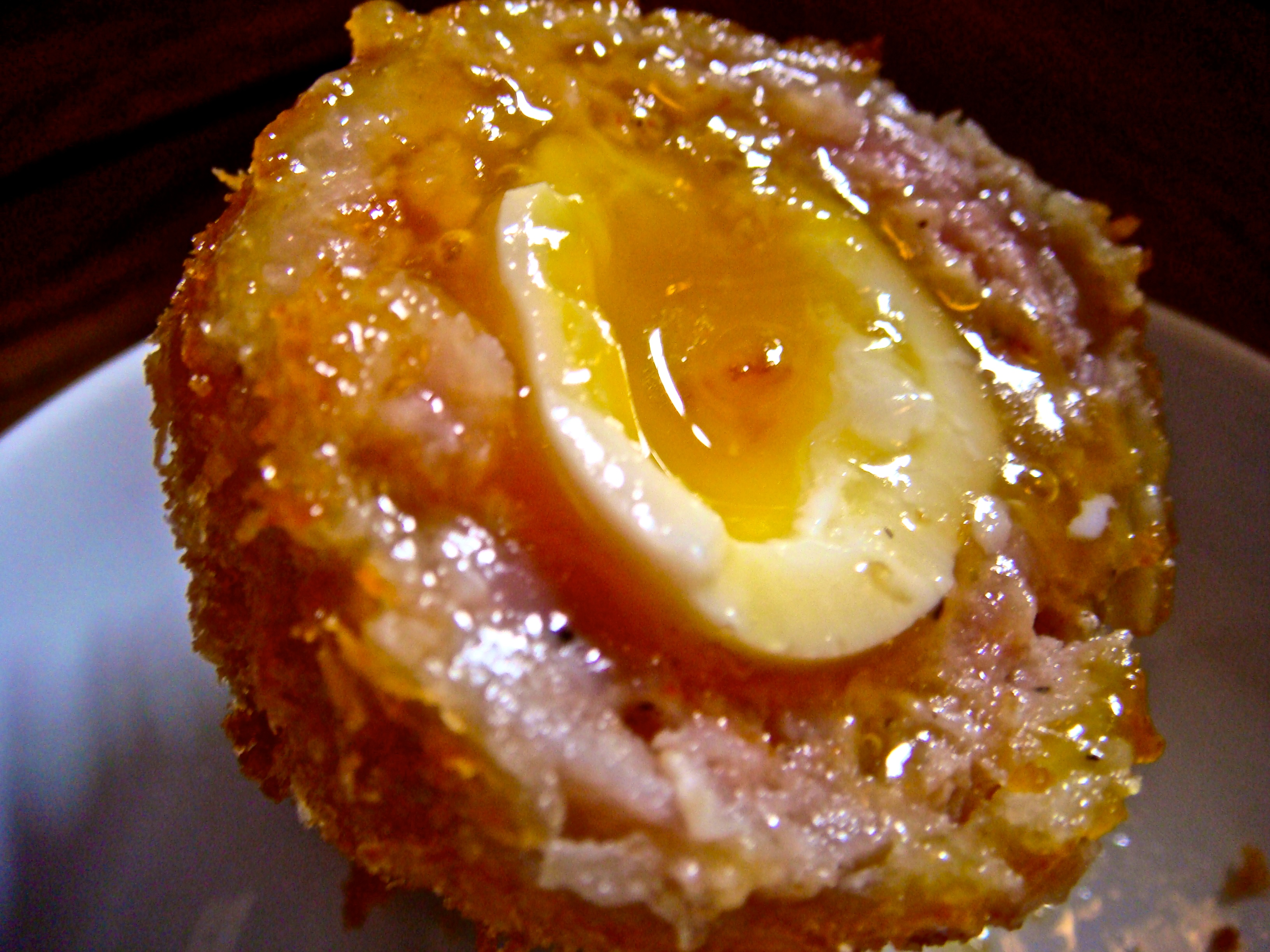 A scotch egg cut in half from the Hinds Head, Bray. It is made with a quail egg.